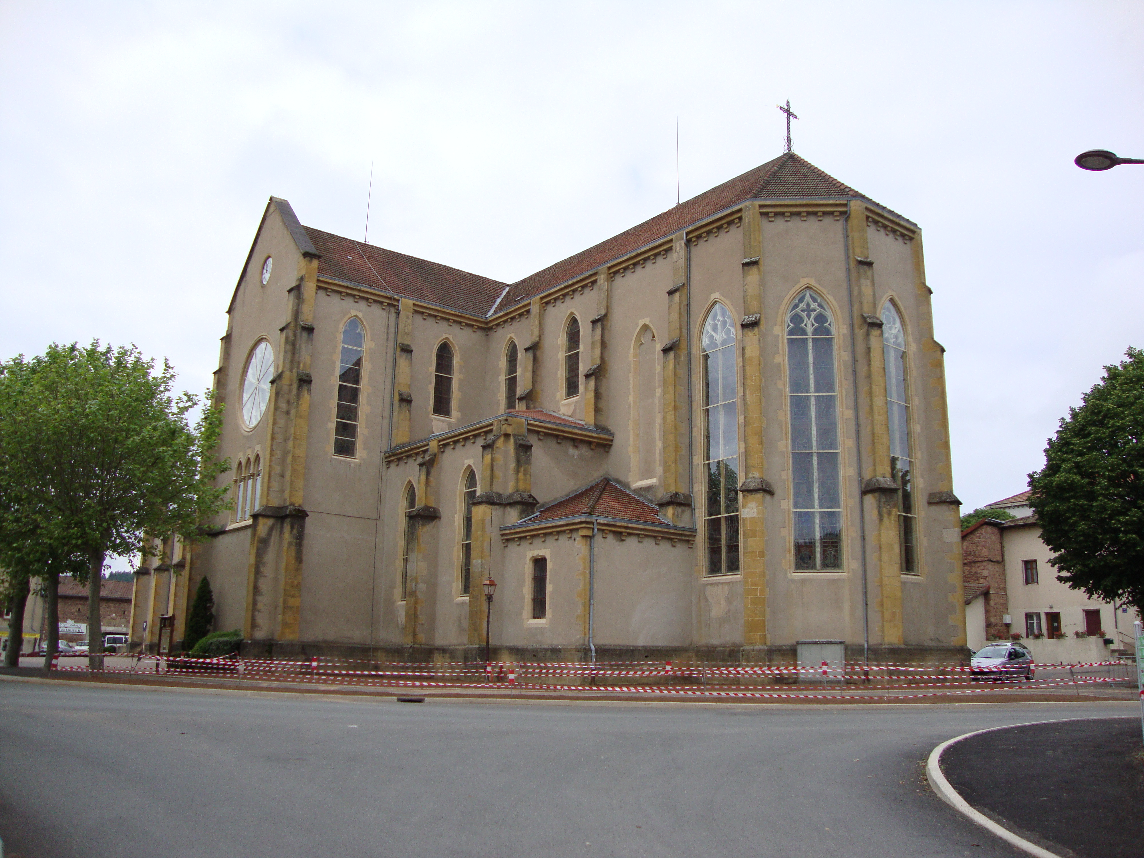 Belmont-de-la-Loire (Loire, Fr) church